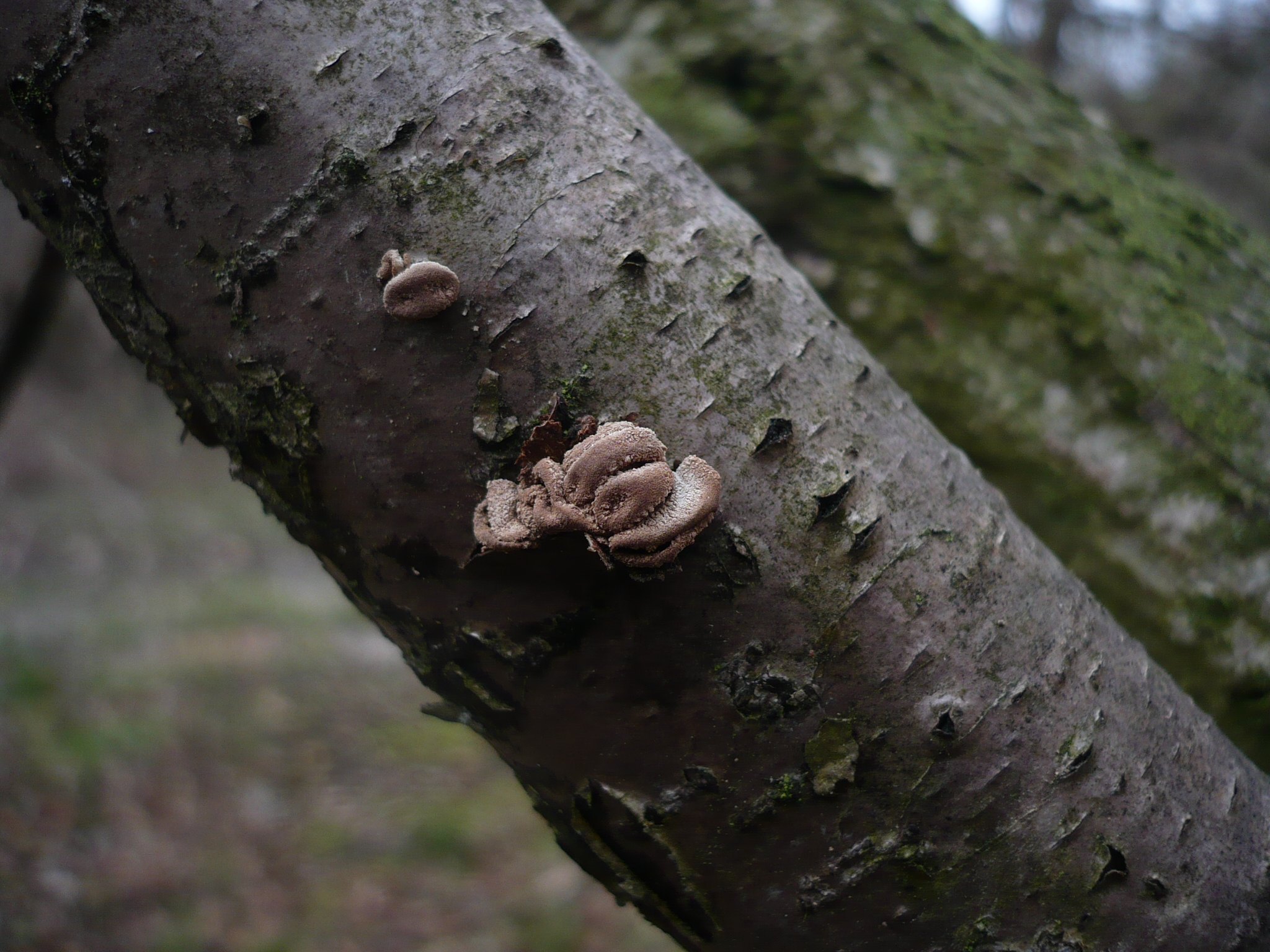 Encoelia furfuracea (Roth) P. Karst. Image location: Wolfstaudengraben, Marz, Bezirk Mattersburg, Burgenland, Austria [admin – Sat Aug 14 02:08:01 +0000 2010]: Changed location name from ‘Wolfstaudengraben,Marz,Bezirk Mattersburg,Burgenland,Austria’ to ‘Wolfstaudengraben, Marz, Bezirk Mattersburg, Burgenland, Austria’ Recognized by sight: very common especially in spring and late winter For more information about this, see the observation page at Mushroom Observer.